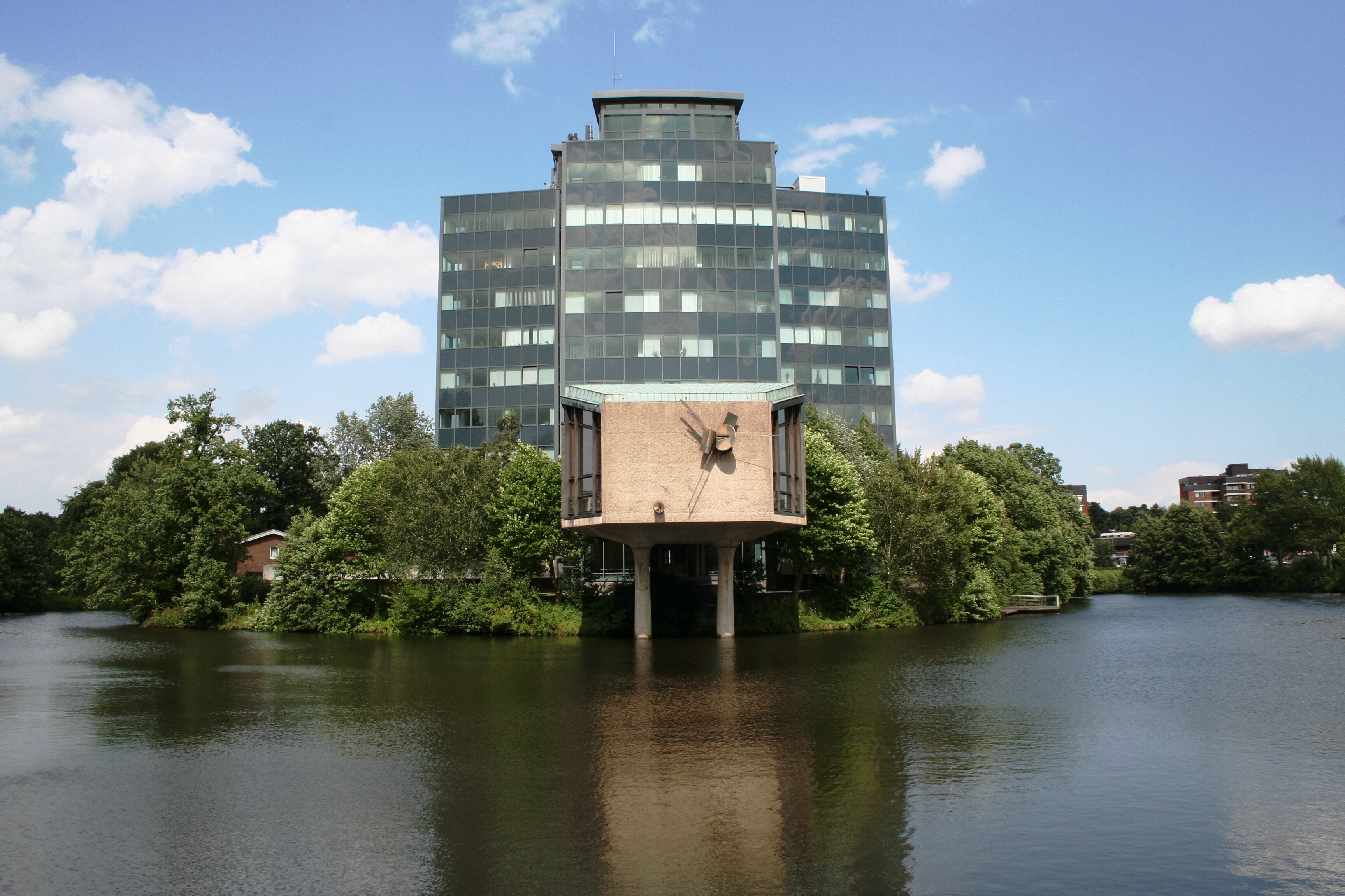 Sennestadthaus with refurbished storefront